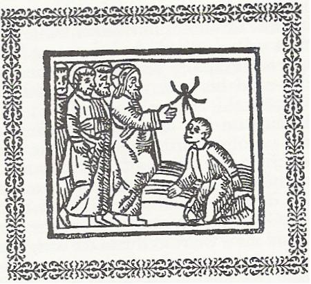 Wood Engraving 25 from the Compendium Maleficarum